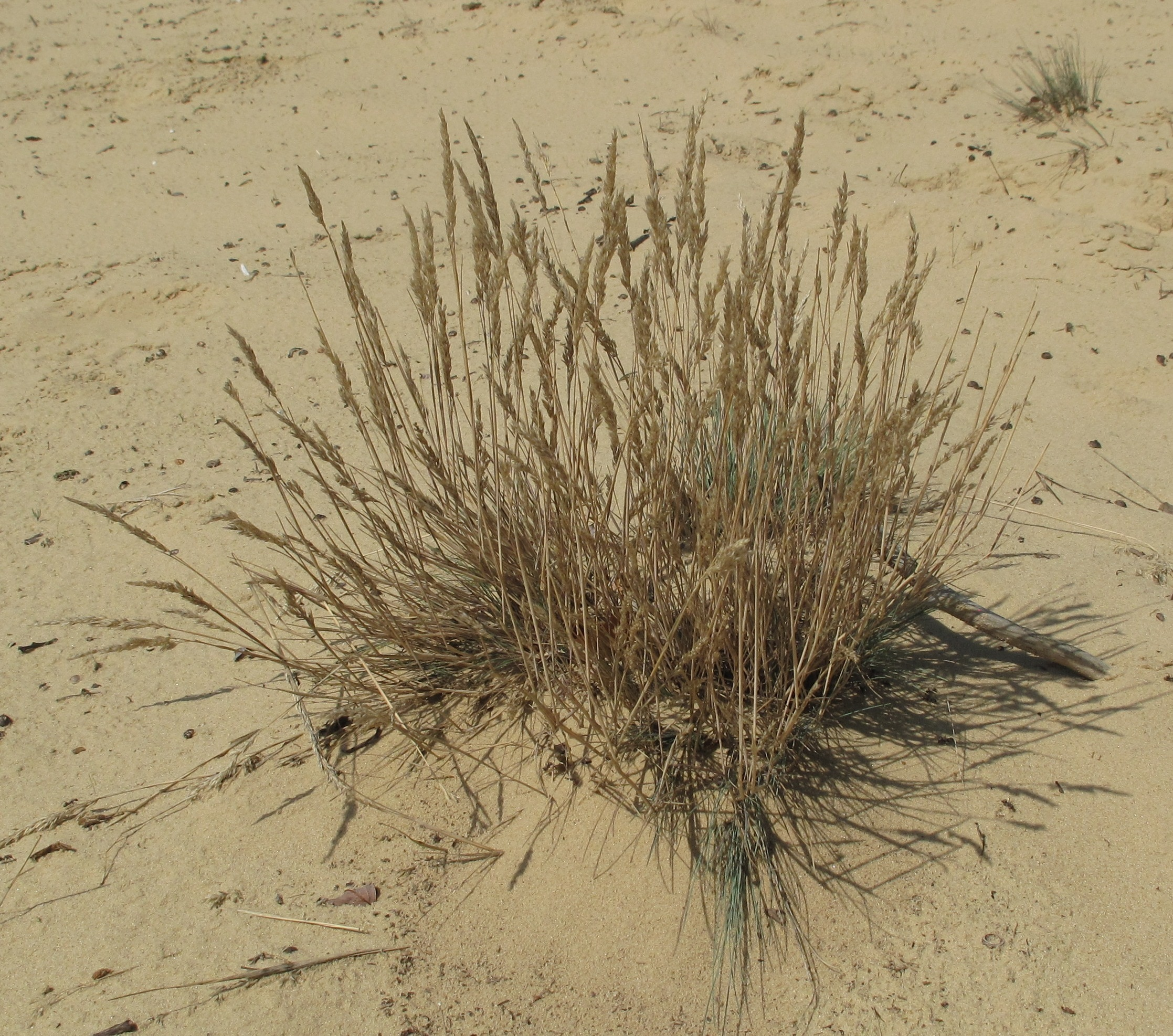 Corynephorus canescens on the Binnendüne Waltersberge. The „Binnendüne Waltersberge“ is one of the largest inland dunes in Brandenburg, Germany. The dune is situated in the town Storkow, District Oder-Spree, just over the eastern border of the Dahme-Heideseen Nature Park. The centre of the area, which covers about 14 hectare, is designated as a Naturschutzgebiet (protected area) and Natura 2000-area. Nearly just beside the northern bank of the Großer Storkower See (lake), rises above the dune with its largest peak, the Storkower Weinberg (69 metres), up to 32 metres over the sea.